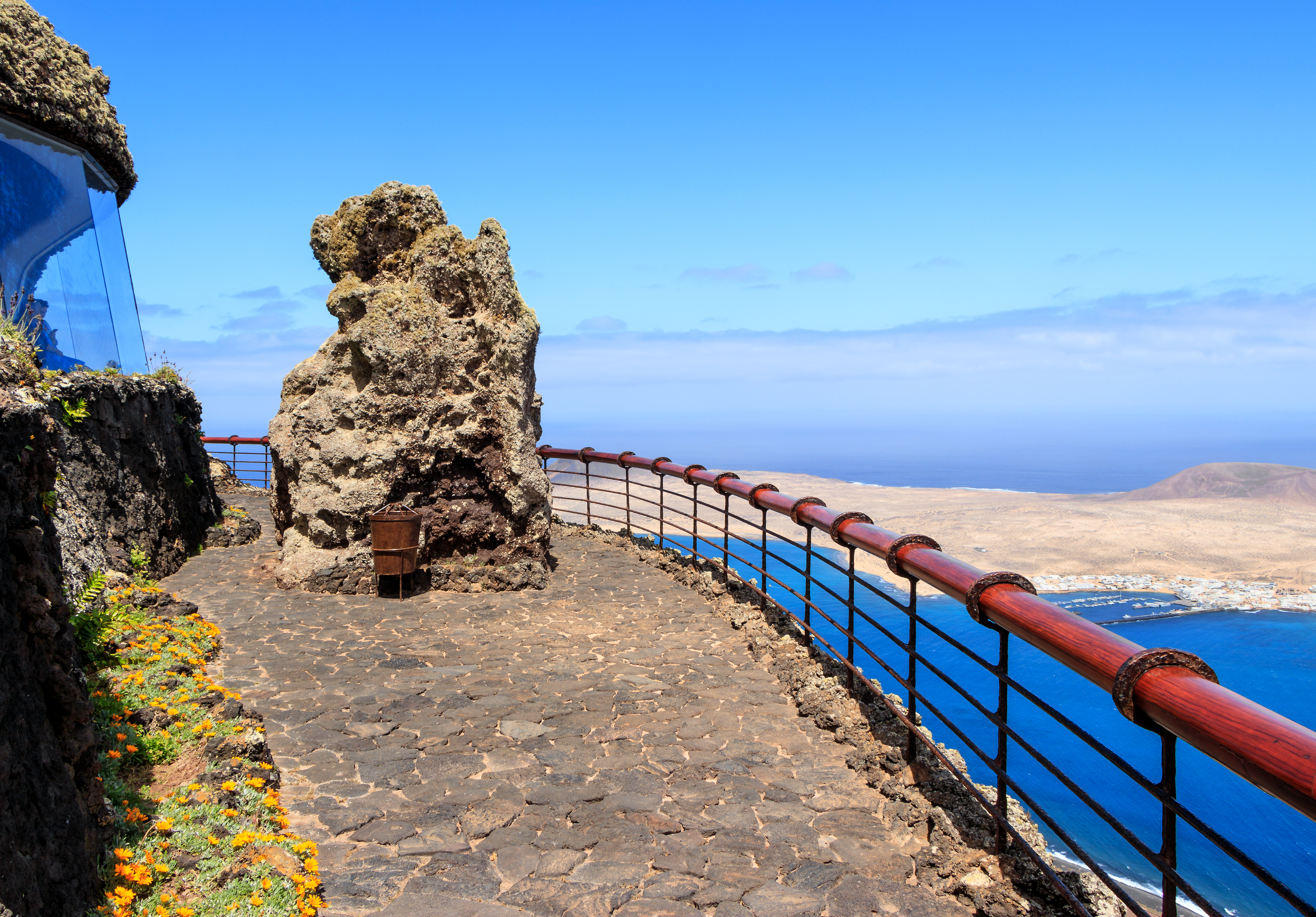 Mirador del Río, Lanzarote, Canary Islands, Spain.